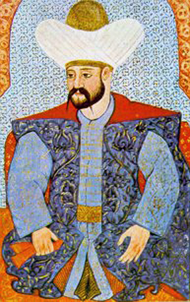 Detail of an Ottoman miniature painting depicting Murad I, Sultan of the Ottoman Empire from 1359 to 1389. The painting is preserved at the Topkapı Palace Museum in Istanbul, Turkey.